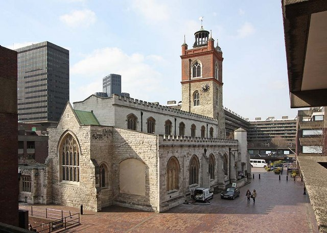 St Giles, Cripplegate, London EC2, near to Shoreditch, Islington, Great Britain.